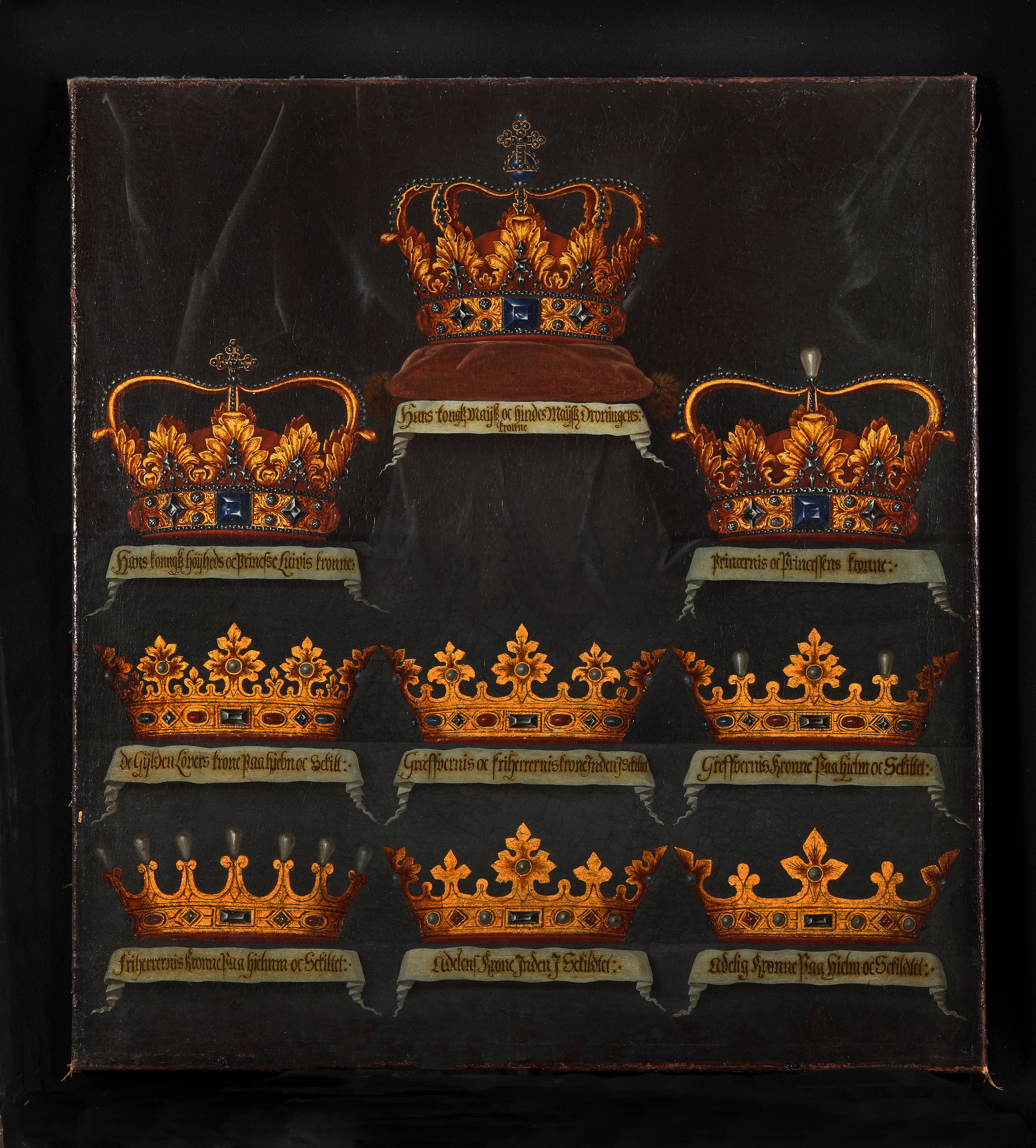 The Danish Noble and Royal coronets drawn up for the Crown Regulations of 1693, when the Danish Monarchy became absolutist